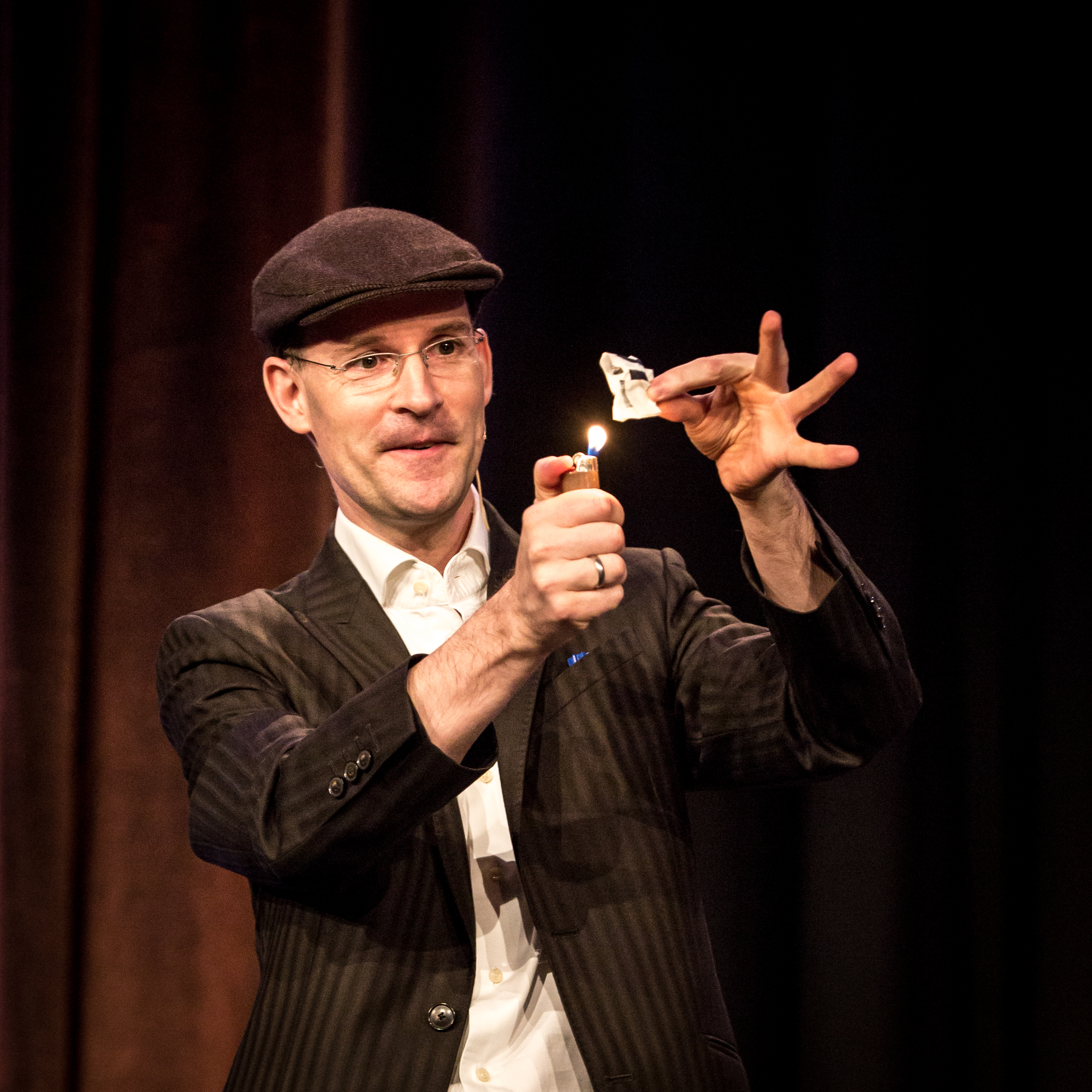 German magician Pit Hartling at the Internationale Kulturbörse Freiburg 2018